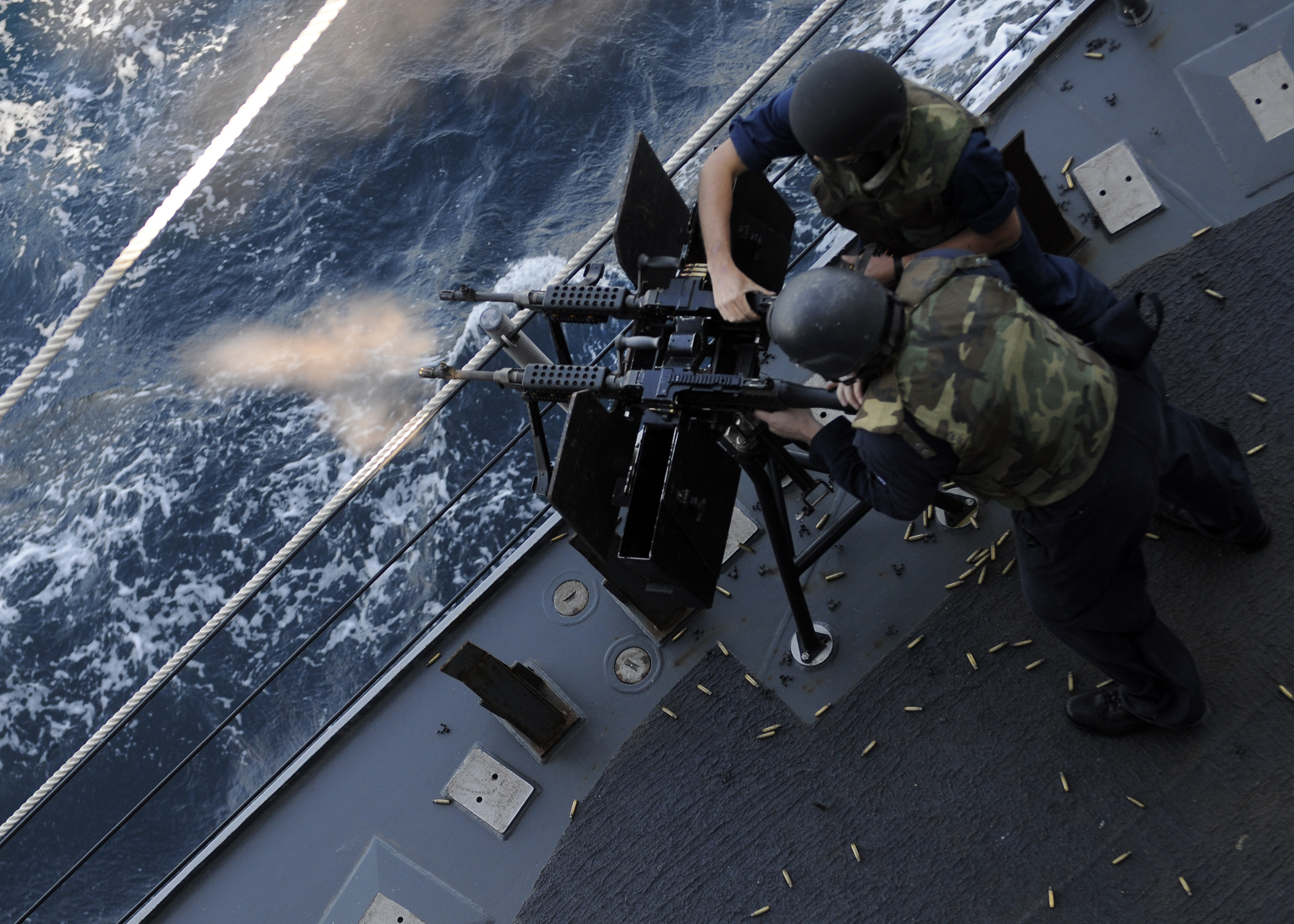 GULF OF ADEN (Jan. 24, 2012) Sailors fire a dual-mounted M-240 machine gun during a live-fire exercise aboard the guided-missile cruiser USS Bunker Hill (CG 52). Bunker Hill is on a scheduled deployment to the western Pacific region. (U.S. Navy photo by Mass Communication Specialist 3rd Class John Grandin/Released)